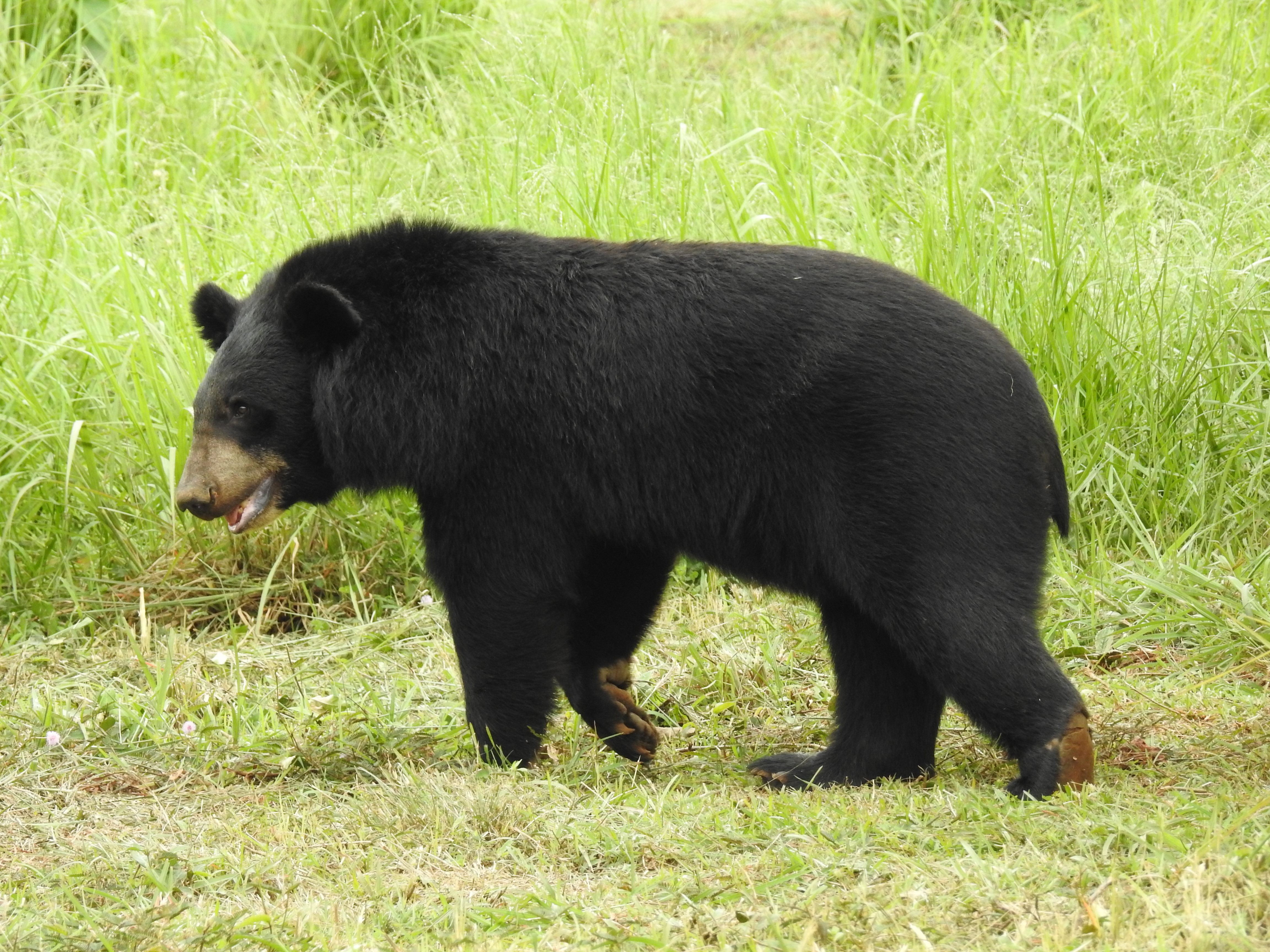 Asian Black Bear Ursus thibetanus by Dr. Raju Kasambe. Photo taken at Bhagawan Birsa Biological Park, Ranchi.